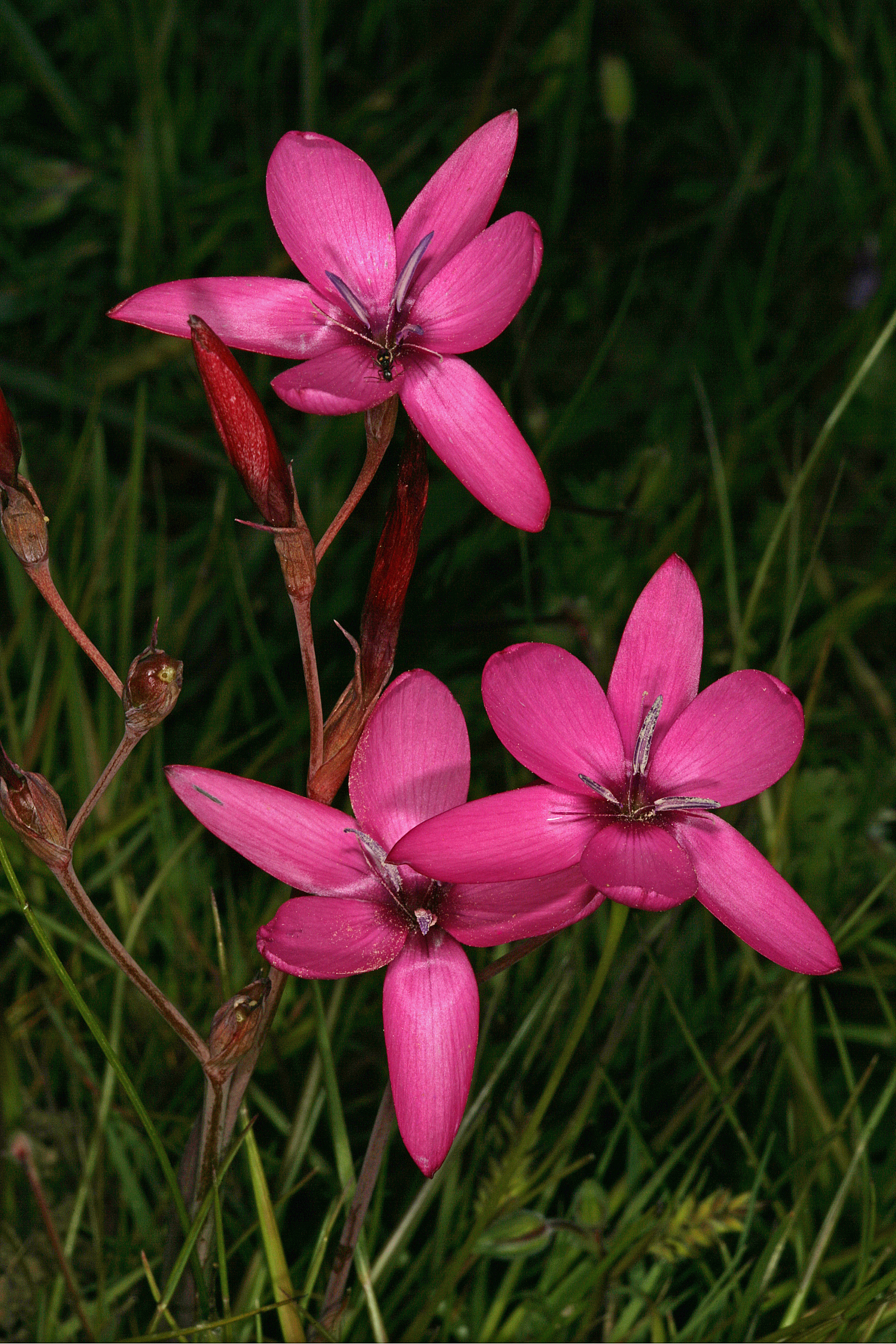 Hesperantha pauciflora, flowers and young developing fruit; farm Oorlogskloof, Nieuwoudtville, Northern Cape, South Africa